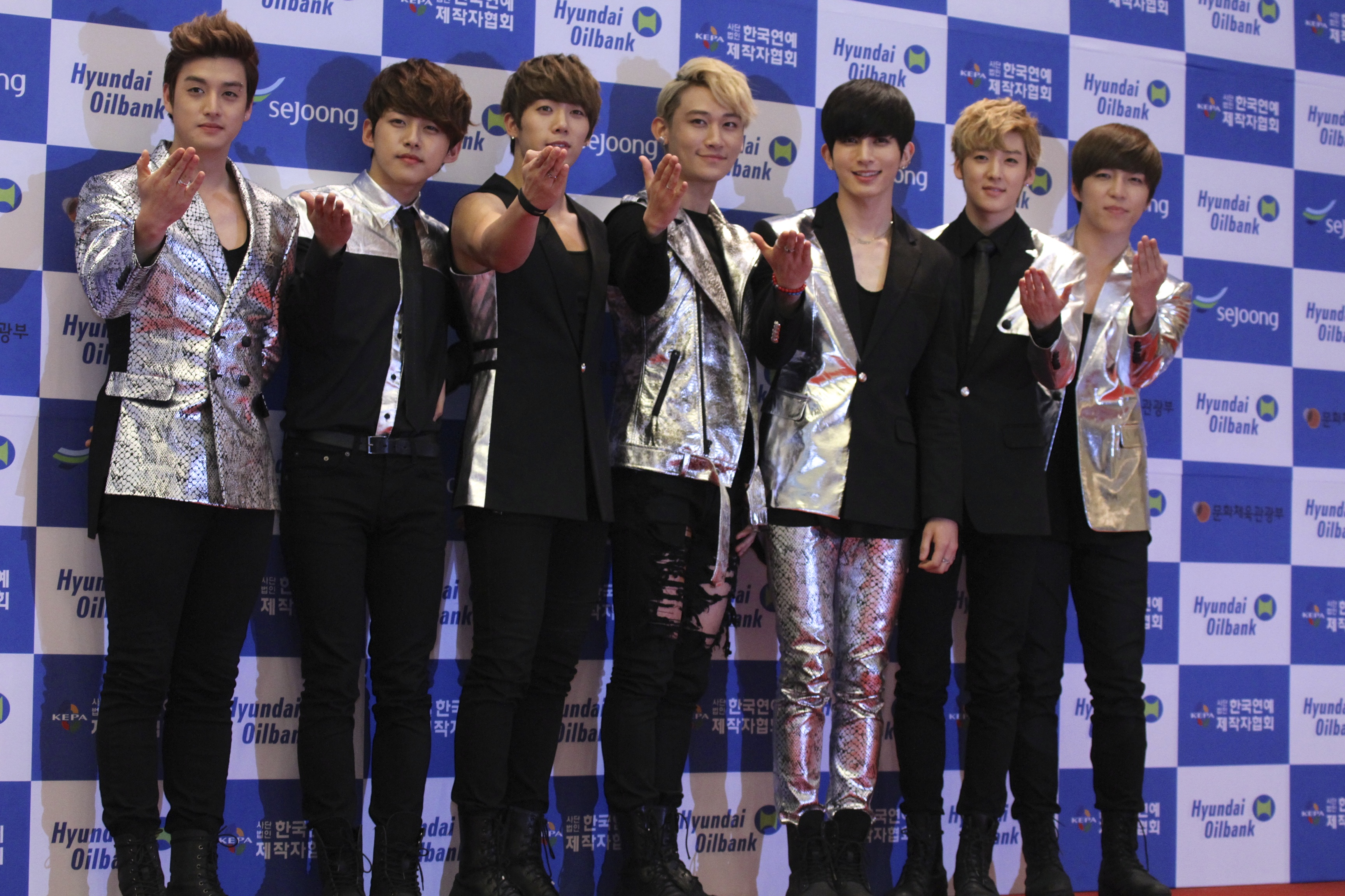 Group photo of U-Kiss taken at the press conference for Dream Concert 2013. Taken and shared by K-Soul Magazine for the U-Kiss information page.